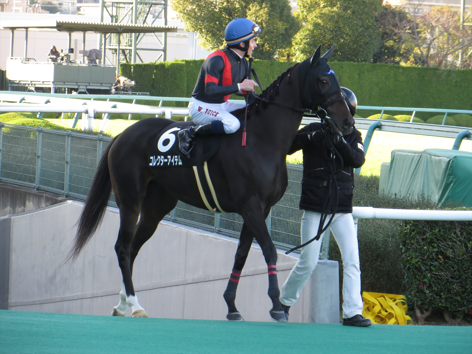 Collector Item (Racehorse of Japan).